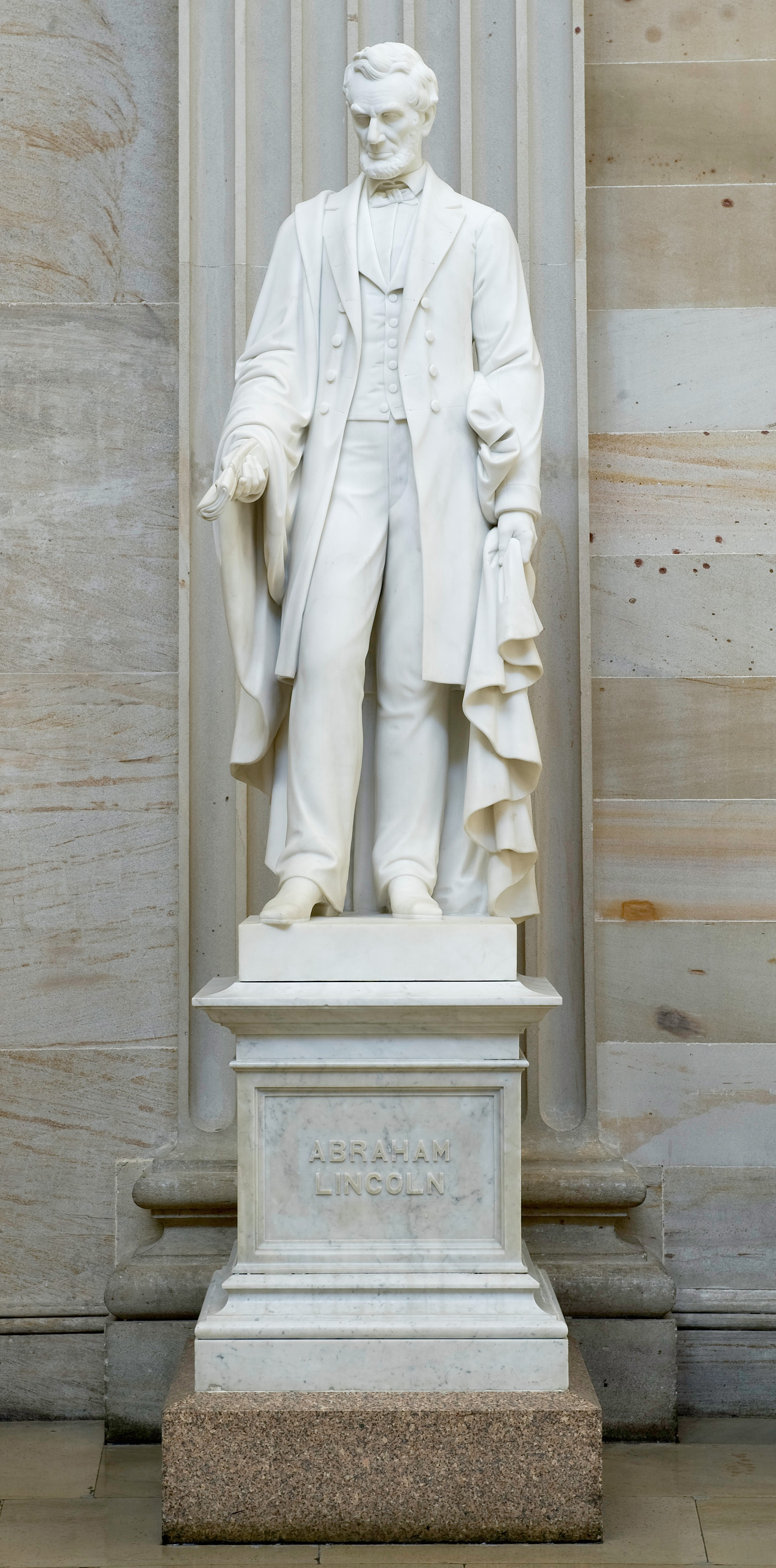 The statue of Abraham Lincoln is located in the Rotunda of the U.S. Capitol building. Sculpture by Vinnie Ream Marble 1871 Rotunda U.S. Capitol For more information visit: This official Architect of the Capitol photograph is being made available for educational, scholarly, news or personal purposes (not advertising or any other commercial use). When any of these images is used the photographic credit line should read “Architect of the Capitol.” These images may not be used in any way that would imply endorsement by the Architect of the Capitol or the United States Congress of a product, service or point of view. For more information visit